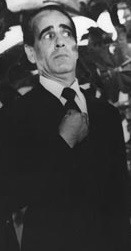 Juan Carlos De Seta- actor argentino